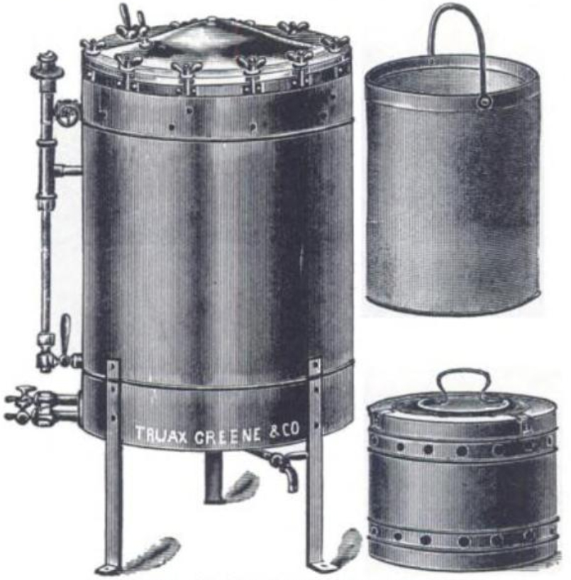 A steam steriliser designed by Curt Schimmelbusch for the sterilisation of surgical instruments and dressings in a hospital.